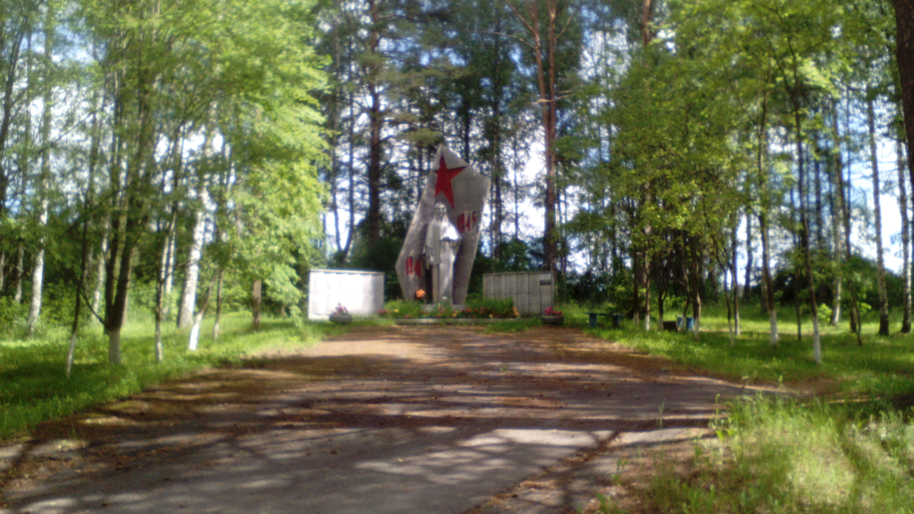 Lyady communal grave